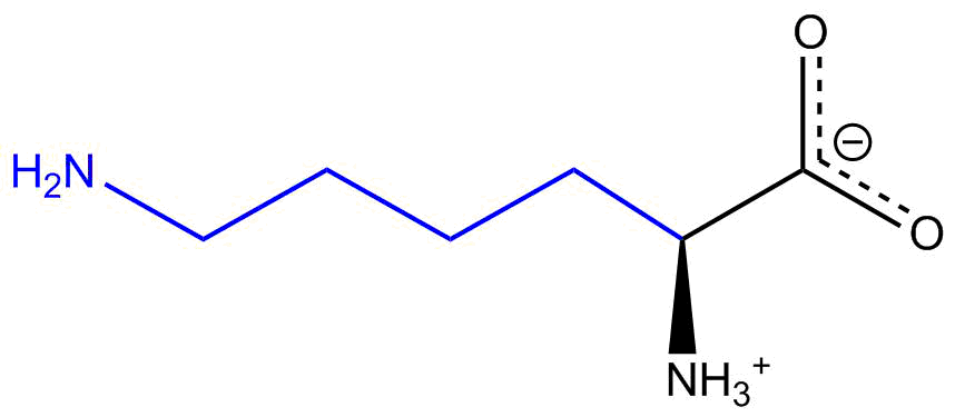 Structure of lysine at physiological pH